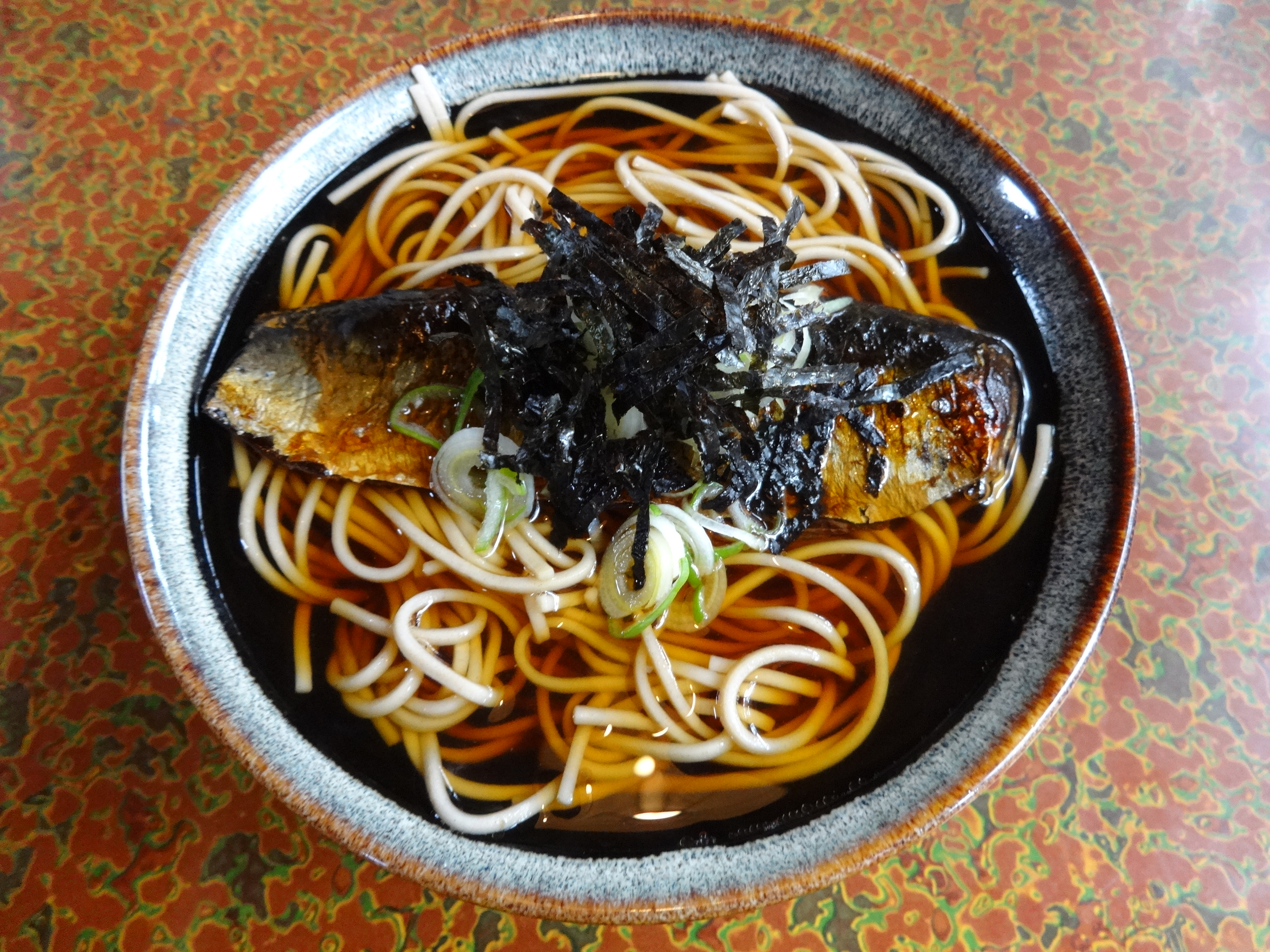 Soba noodles with dried and stewed herring in Yokoyama-ke, Esashi, Hokkaido